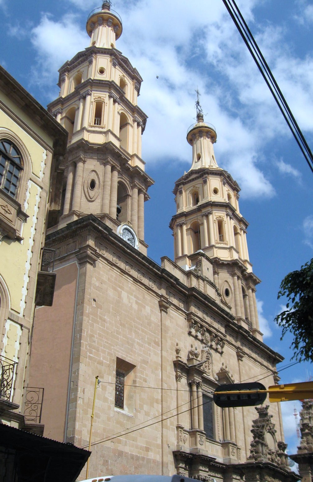 Spires of the Leon, Guanajuato cathedral